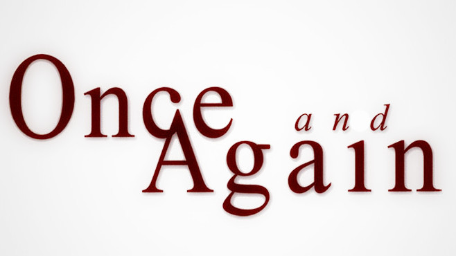 Logo for the US television show Once and Again